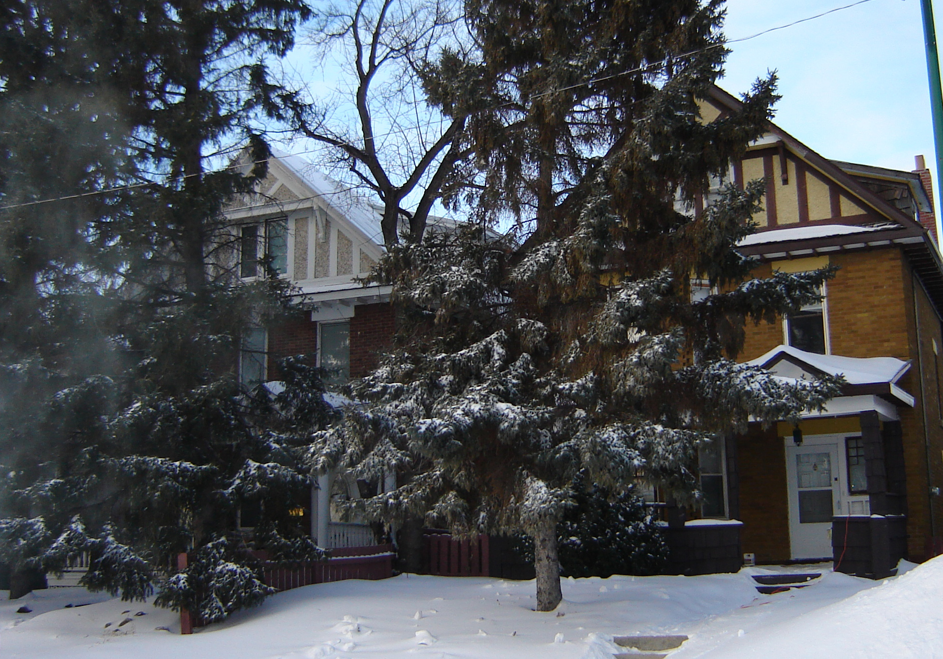 Two Sisters Saskatoon's Heritage. These two houses were originally part of three which were seen on the bare prairie before the neighborhood developed. Queen Elizabeth Neighborhood, Nutana SDA, Saskatoon, Saskatchewan, Canada